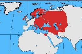 Cropped from Hooded_crow_map.jpg